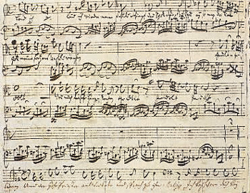 Photograph of J.S Bach's St. Matthew Passion, end of aria no. 41 "Geduld".